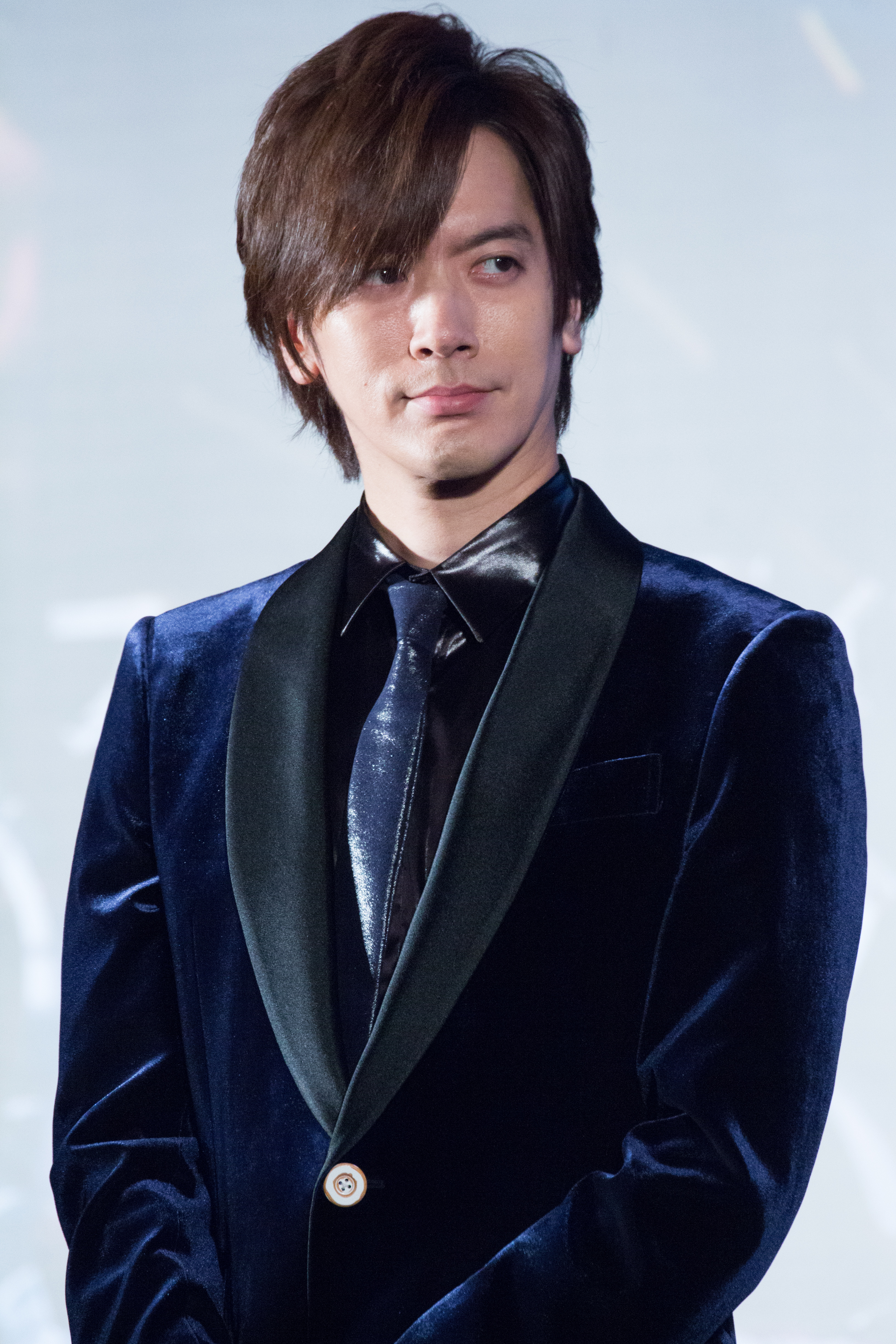 DAIGO at Fantastic Beasts and Where to Find Them Japan Premiere Red Carpet on November 2016.